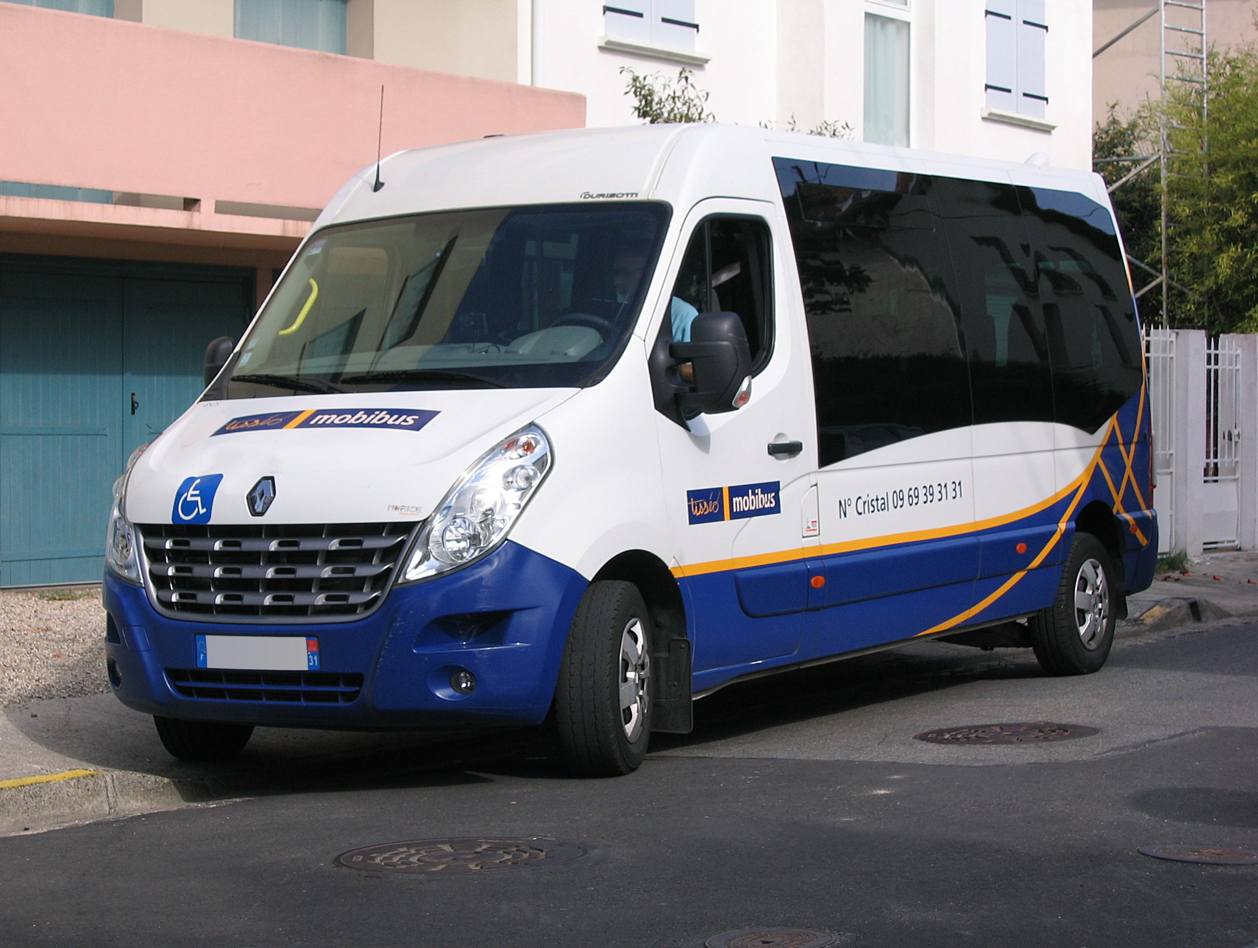 A Renault Master III of the Tisséo Mobibus unit (dedicated to the transport of persons with reduced mobility).